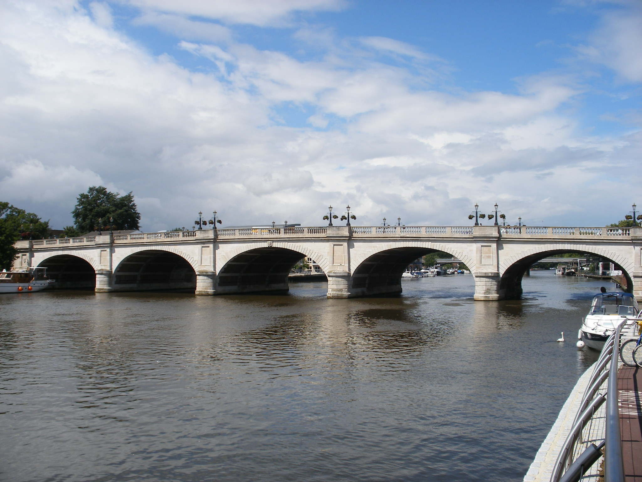 Kingston upon Thames. Bridge over the River Thames - from the Kingston side.